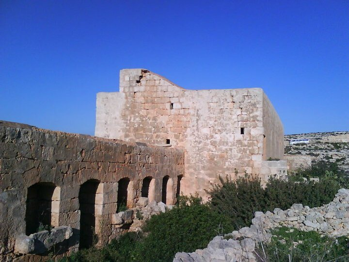 Devil's Farmhouse, Mellieha, Malta